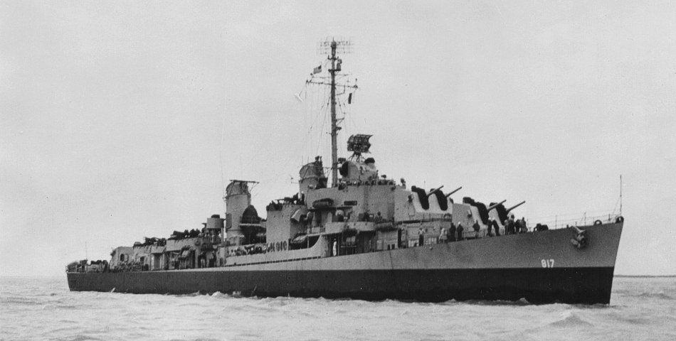 The U.S. Navy destroyer USS Corry (DD-817) off Orange, Texas (USA), on 5 March 1946. She was commissioned on 27 February 1946 and is painted in Measure 22 camouflage.